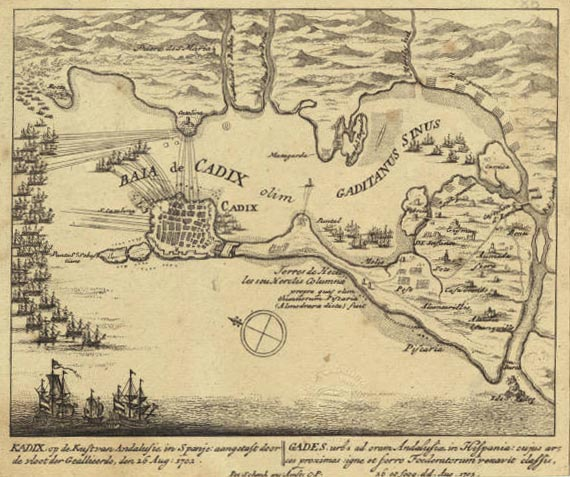 battle of cadiz